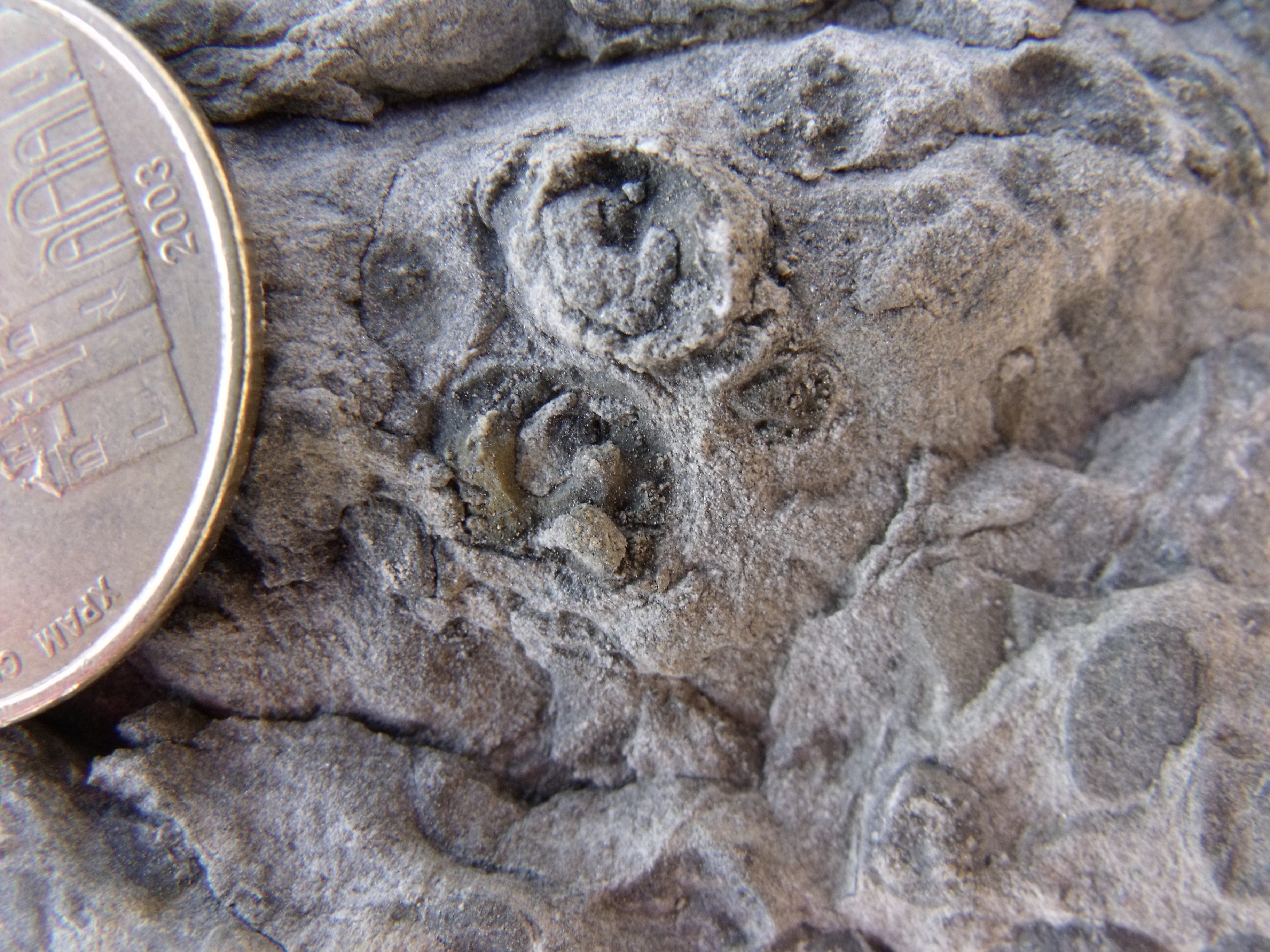 Bioturbation in limestone, Valjevo, western Serbia